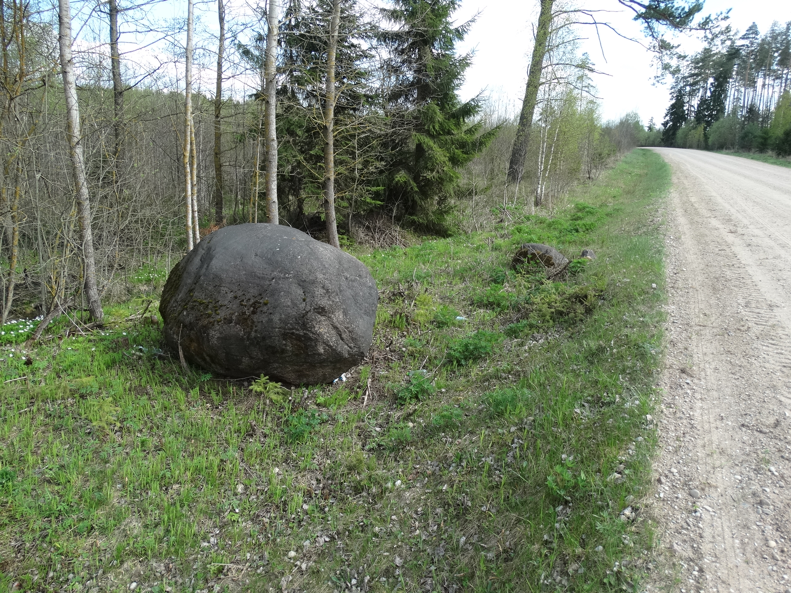 Kalviai Stone, Šalčininkai District, Lithuania